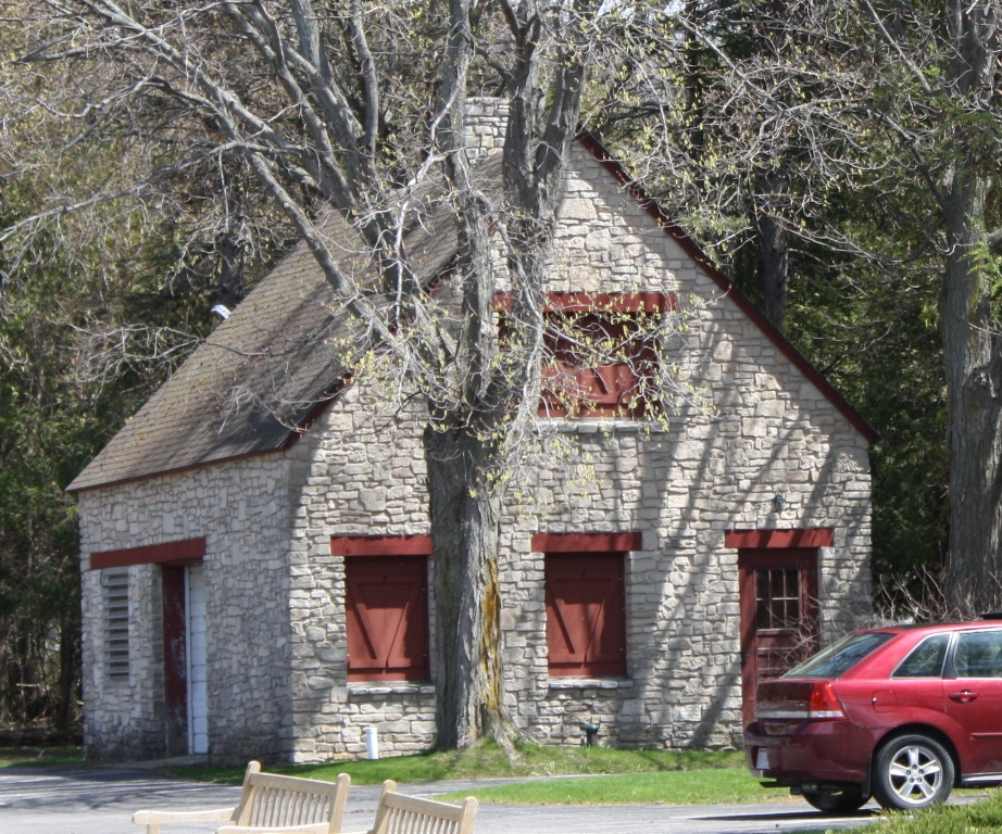 The Peter Peterson House in Ephraim, Wisconsin. It is listed on the National Register of Historic Places.